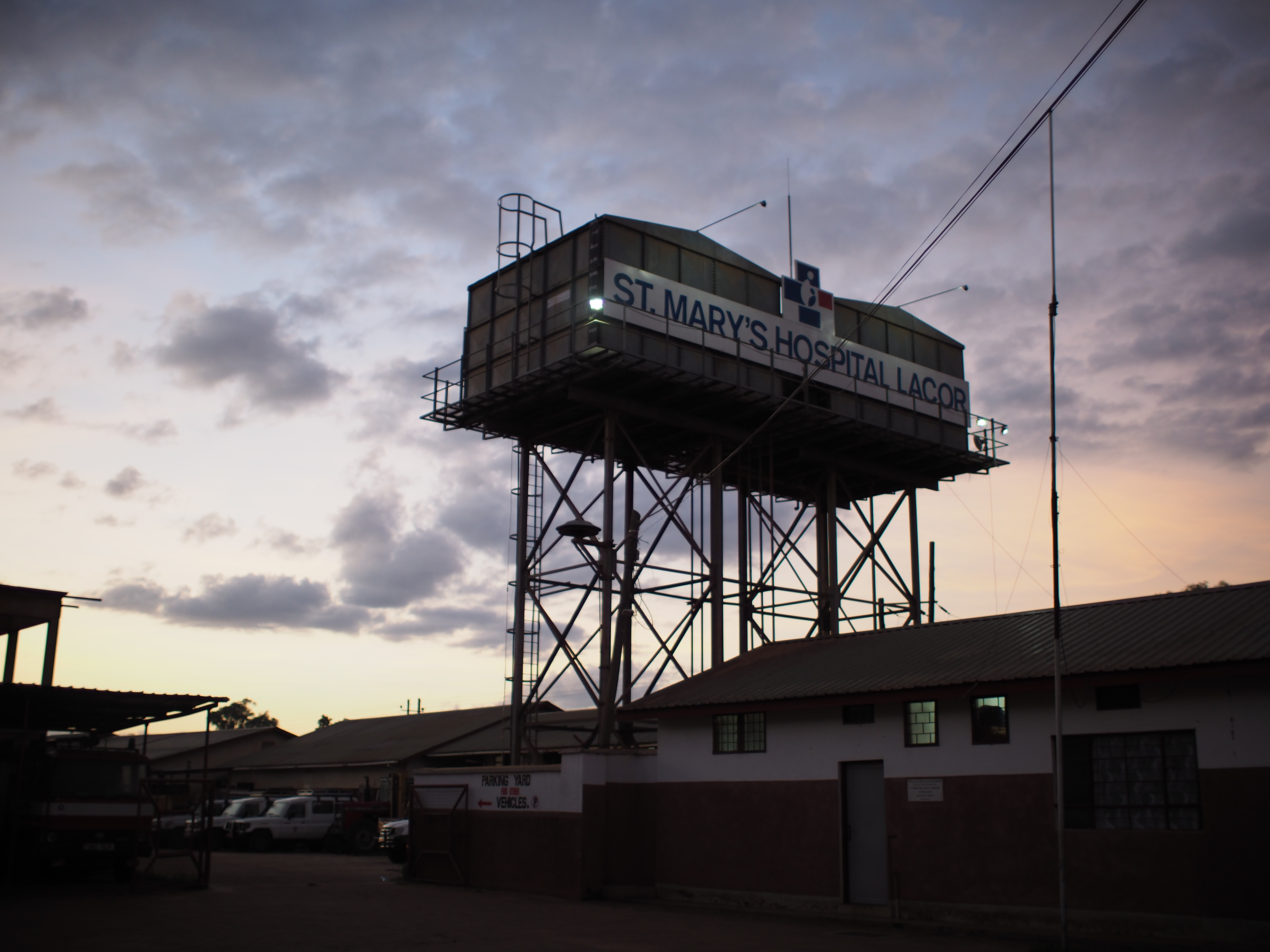 Main Gate of Lacor Hospital in Gulu Picture taken at dawn